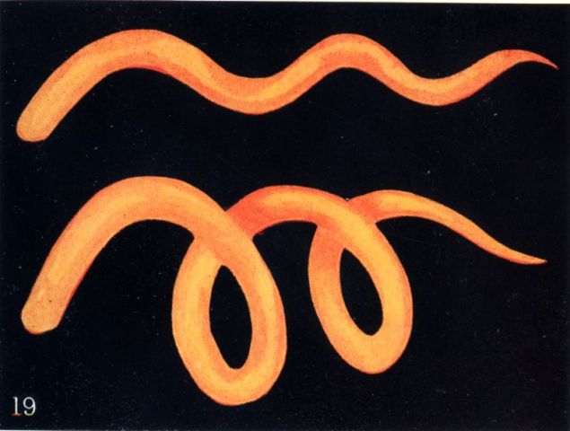 A thought form from Thought-Forms, by Annie Besant & C.W. Leadbeater.